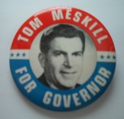 A pin from one of former Connecticut governor Tom Meskill.